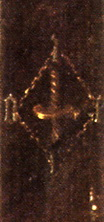 Portrait of Gilles Joye, (symbol on frame), Sterling and Clark Art Institute Williamstown, Mass. USA